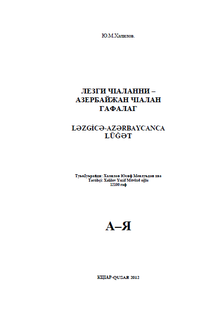 lezgi-azerbaijani dictionary